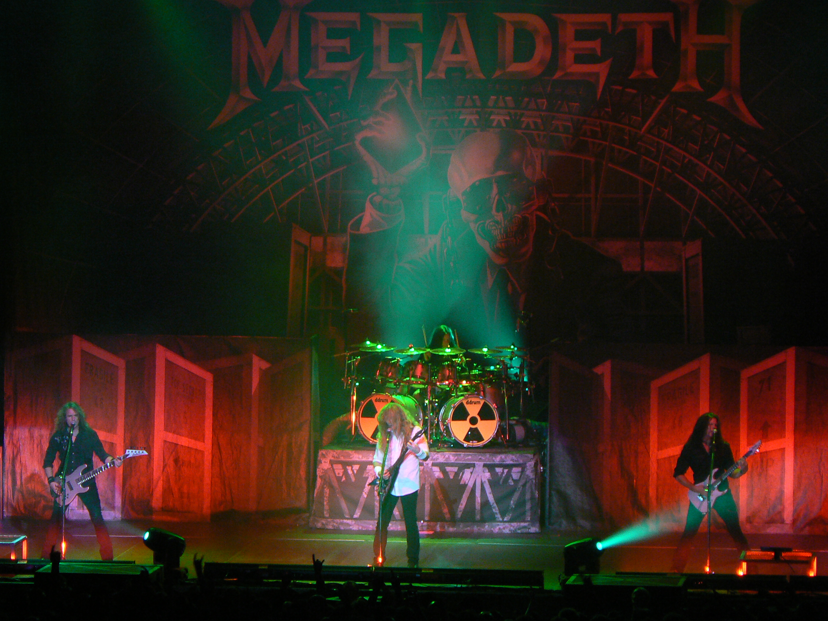 Megadeth live in 2010.